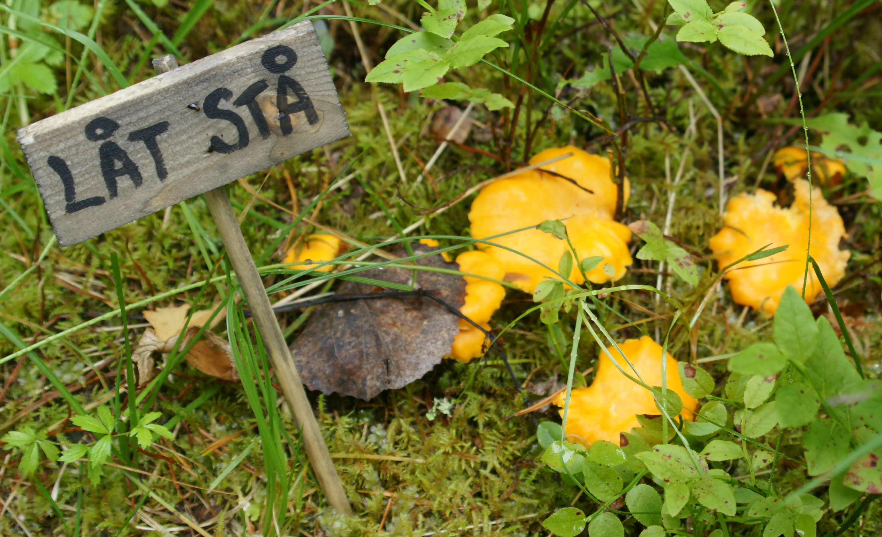 Small sign to tell visitors of Swedish artist Maria "Vildhjärta" Westerberg to let the chanterelles be.